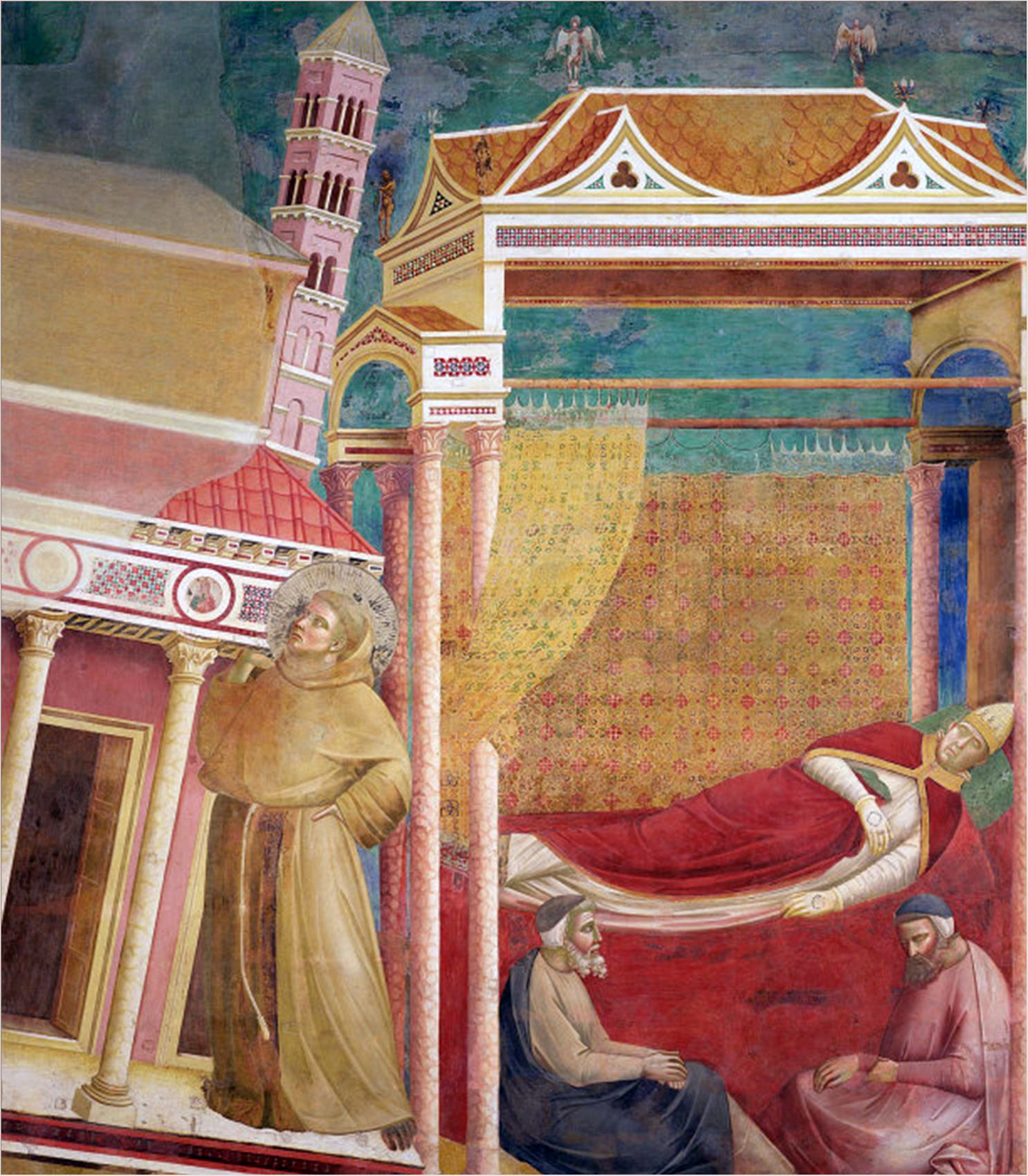 Legend of St Francis